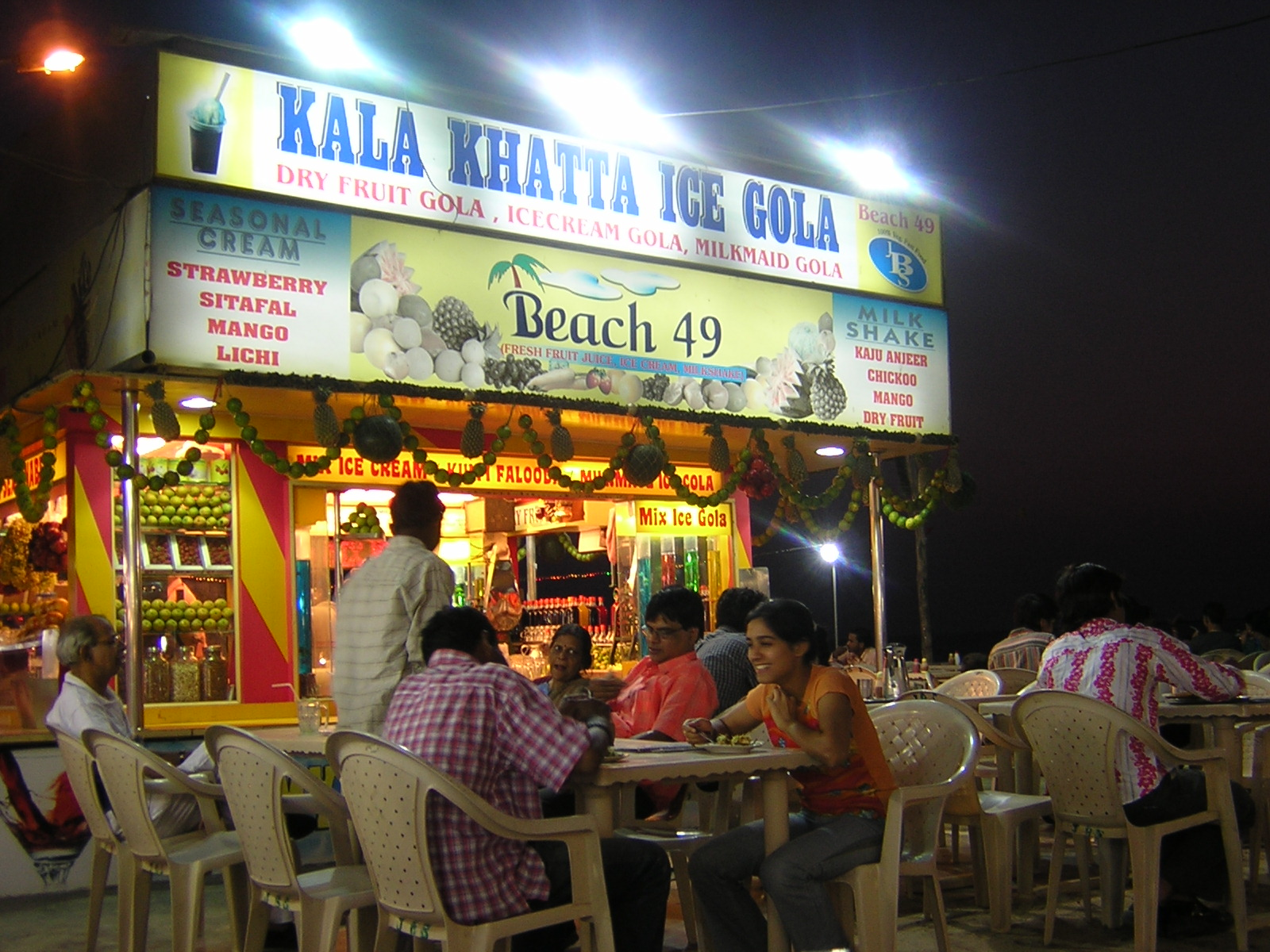 A bar at the Mumbai beach selling ice-cream and fruits.